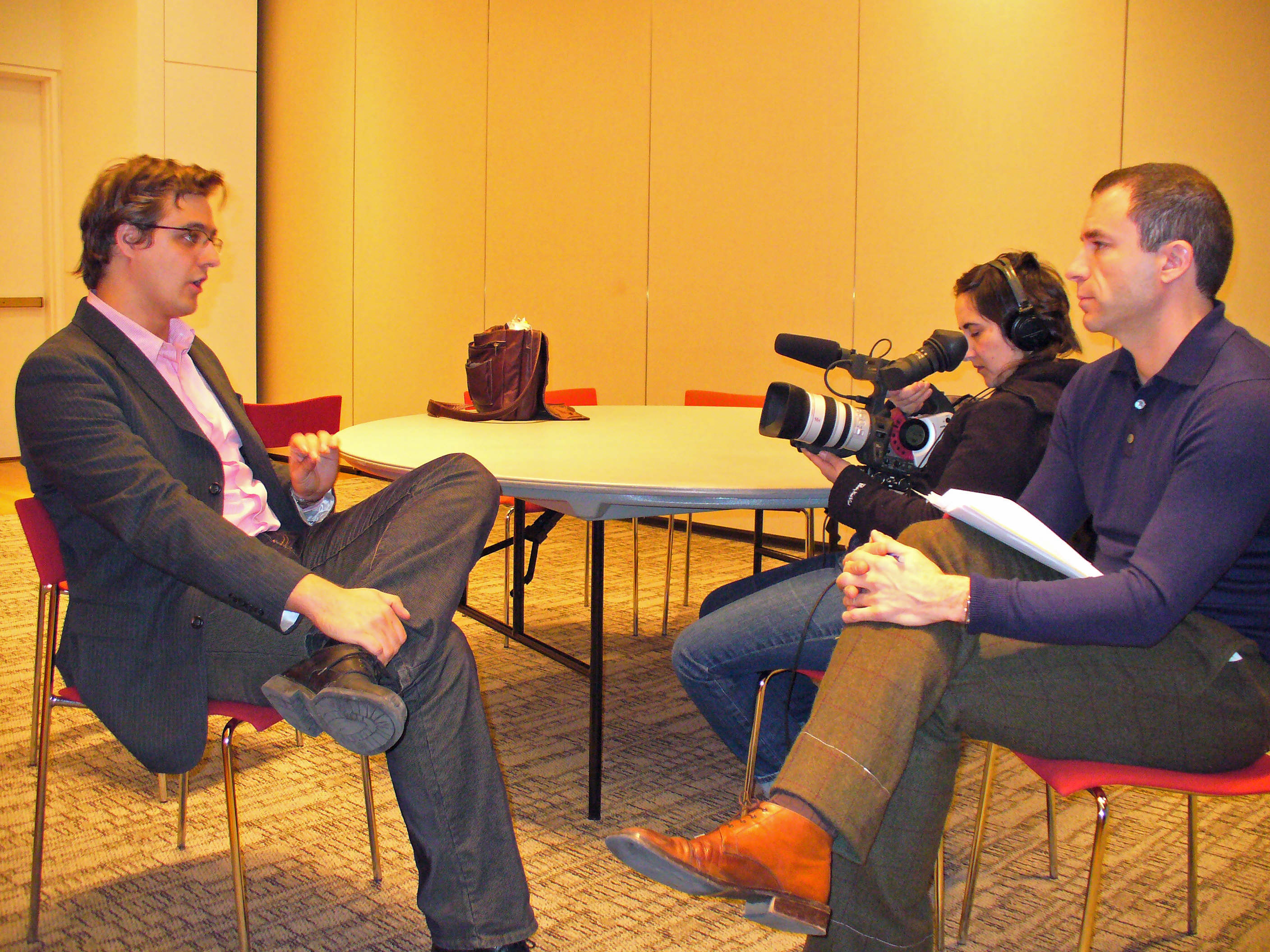 Christopher Hayes and Alan Miller by David Shankbone